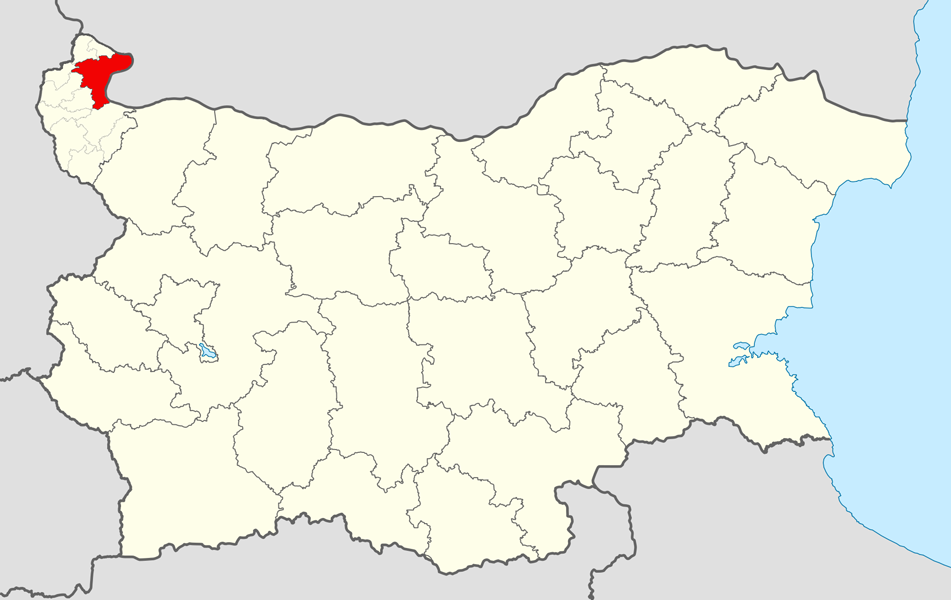 Location map of Vidin Municipality within Bulgaria and Vidin Province. Equirectangular projection, N/S stretching 130 %. Geographic limits of the map: N: 44.4° N S: 41.1° N W: 22.1° E E: 28.9° E